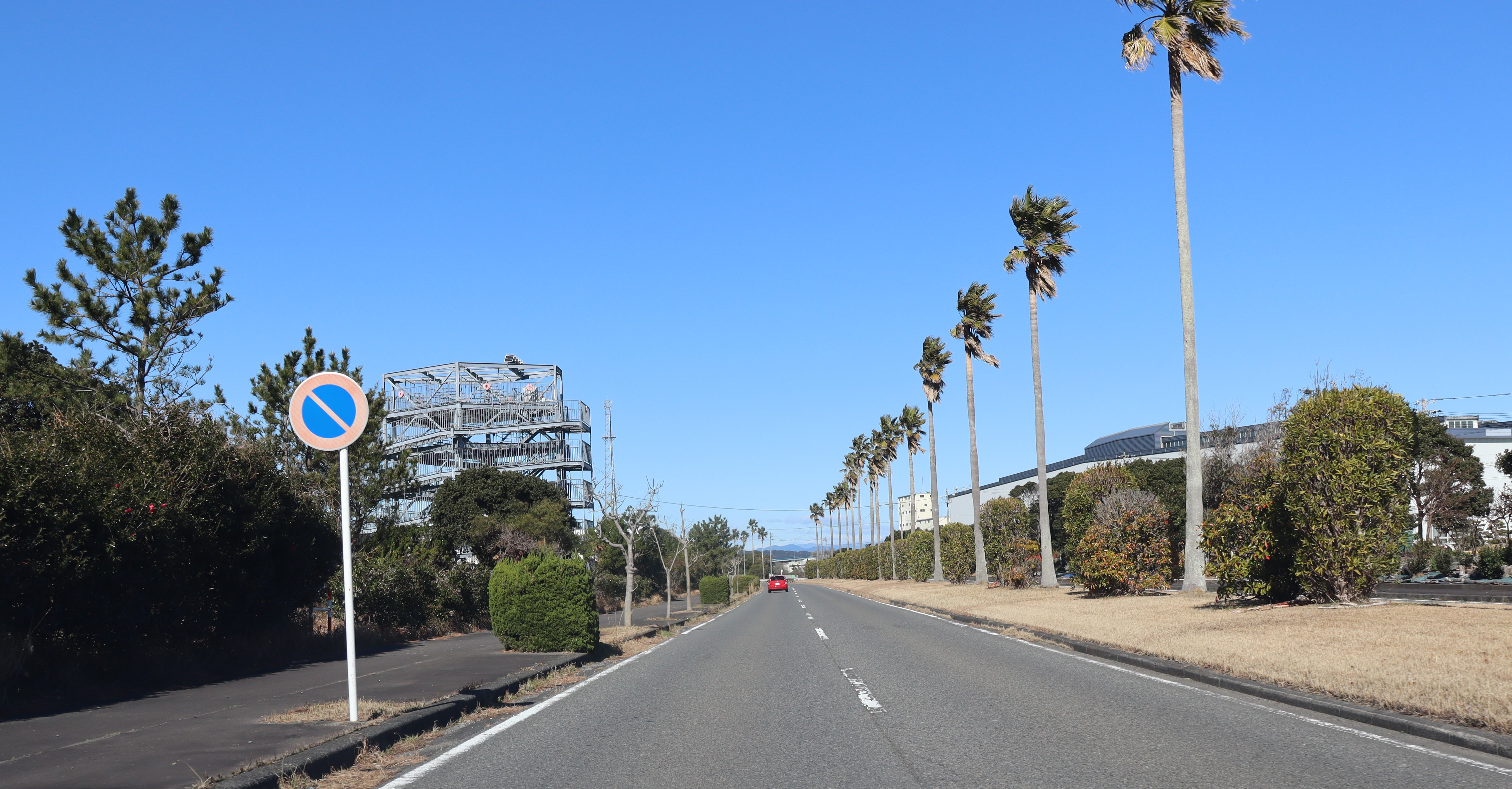 Yashinoki-dōri in Omaezaki, Omaezaki City, Shizuoka Prefecture, Japan.